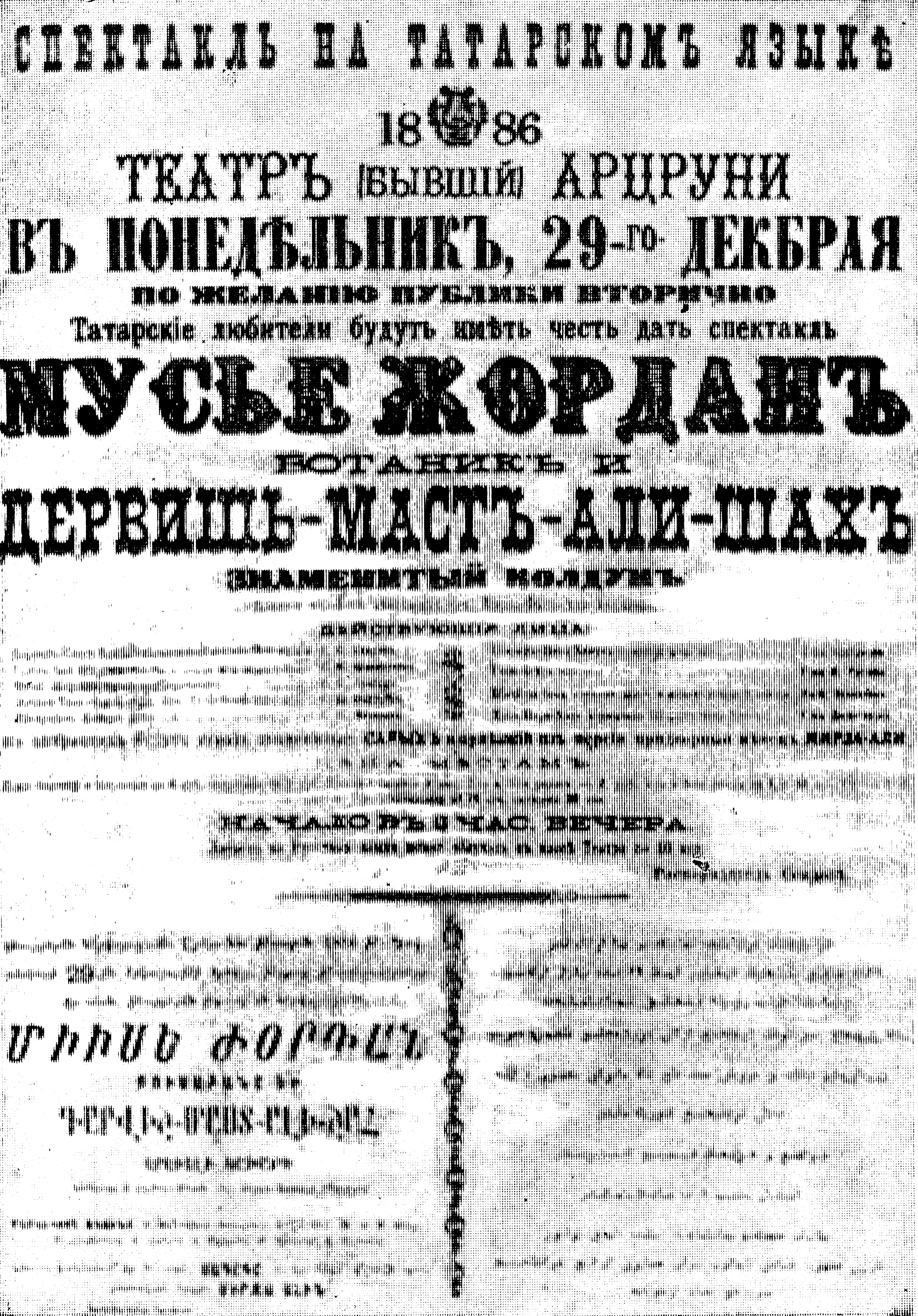 Poster of Monsieur Jordan, the Botanist, and Dervish Mastali-shah, the Famous Magician in Tiflis. In Azerbaijani. With the participation of tar player Sadig and khanande (mugham singer) Mirza Ali. 29 December 1886.